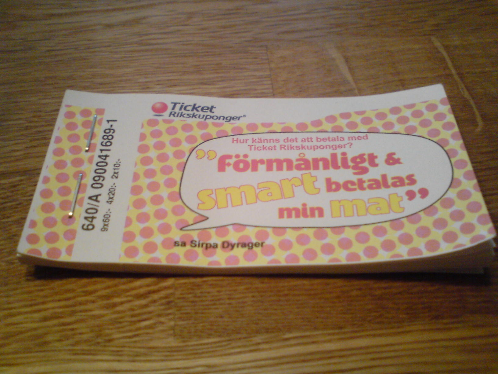 A photo of a swedish book of coupons.